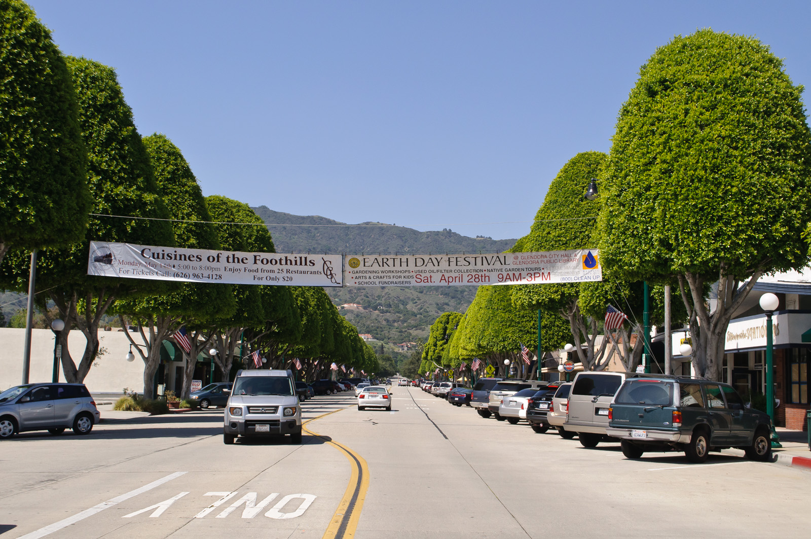 Looking north from Civic Center along Glendora Avenue, which is the historical shopping area that still is home to mom-and-pop stores. I am paying a visit to Glendora, located along the old Route 66 at the eastern edge of San Gabriel Valley, during its Earth Day festival. While San Gabriel Valley as a whole has gone through growth and demographic changes over the years, Glendora has retained the feel of San Gabriel Valley of yore; its population is smaller, its historic town core remains vibrant, and it is also a rare San Gabriel Valley city that remains majority white. My favorite singer-songwriter Anna Nalick grew up here in Glendora. And part of my Glendora visit is to soak up the same influences and vibes that had inspired Anna's songwriting. Following the vibes that have inspired my favorite musicians will now be a new twist to my future travels; in fact my Glendora visit is sort of a practice run for my visit to Huntington, Long Island, New York, just over a week later - where my longtime idol Mariah Carey grew up.